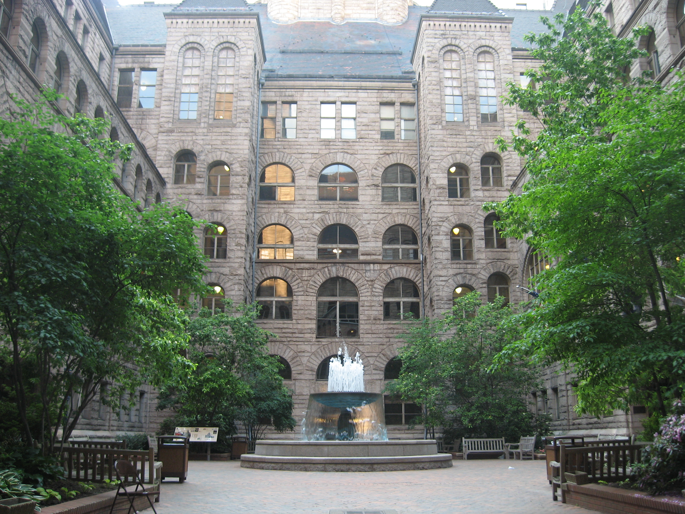 Courtyard of the Allegheny County Courthouse in Pittsburgh 40°26′19.7″N 79°59′47.1″W / 40.438806°N 79.996417°W